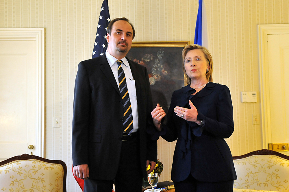 U.S. Secretary of State Hillary Rodham Clinton meets with Czech Republic Foreign Minister Jan Kohout at the Waldorf Astoria hotel during the 64th Session of the UN General Assembly in New York City, New York September 21, 2009.